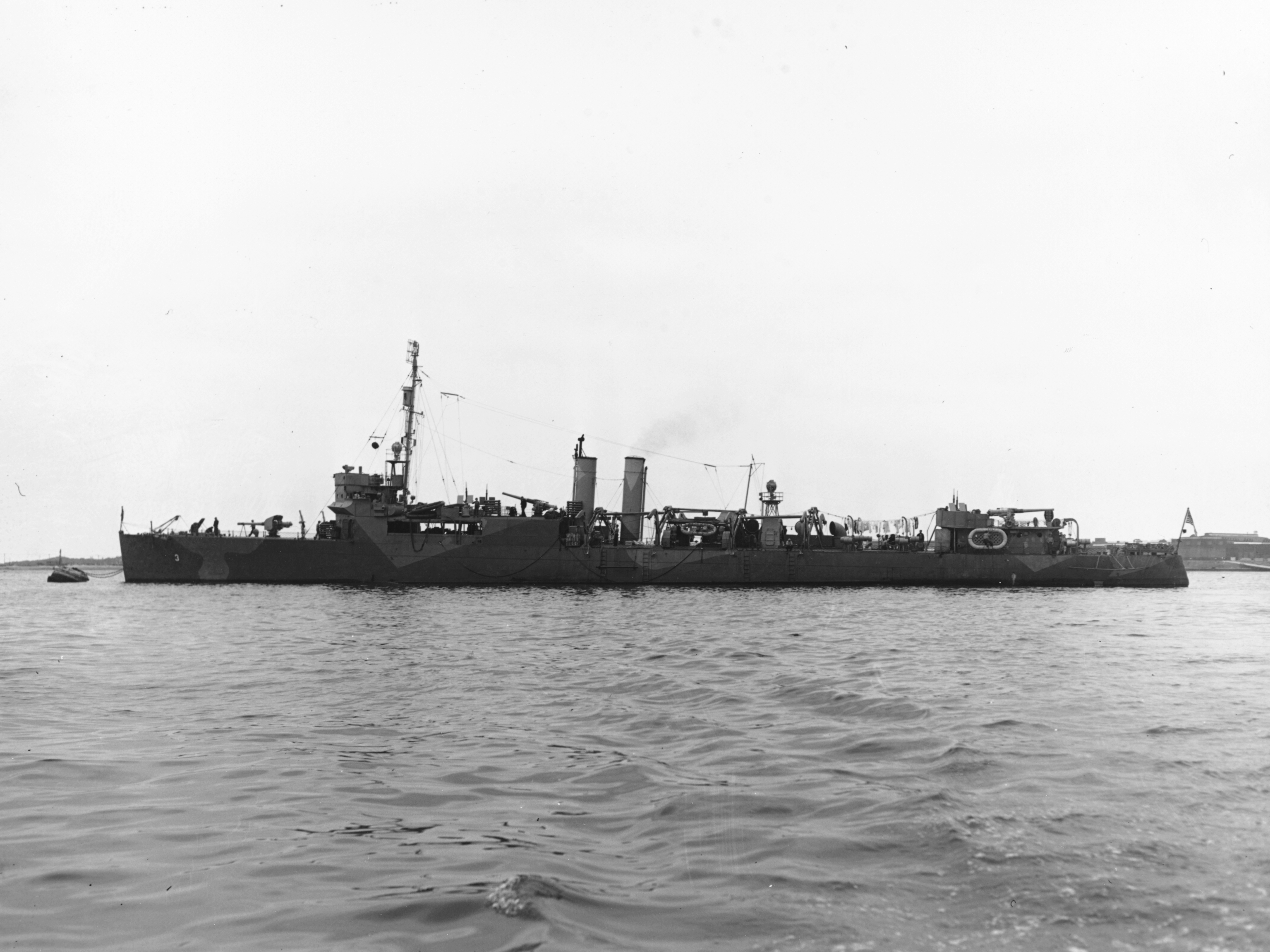 The U.S. Navy high-speed transport USS Gregory (APD-3) in port, circa early 1942, while painted in Camouflage Measure 12 (Modified).